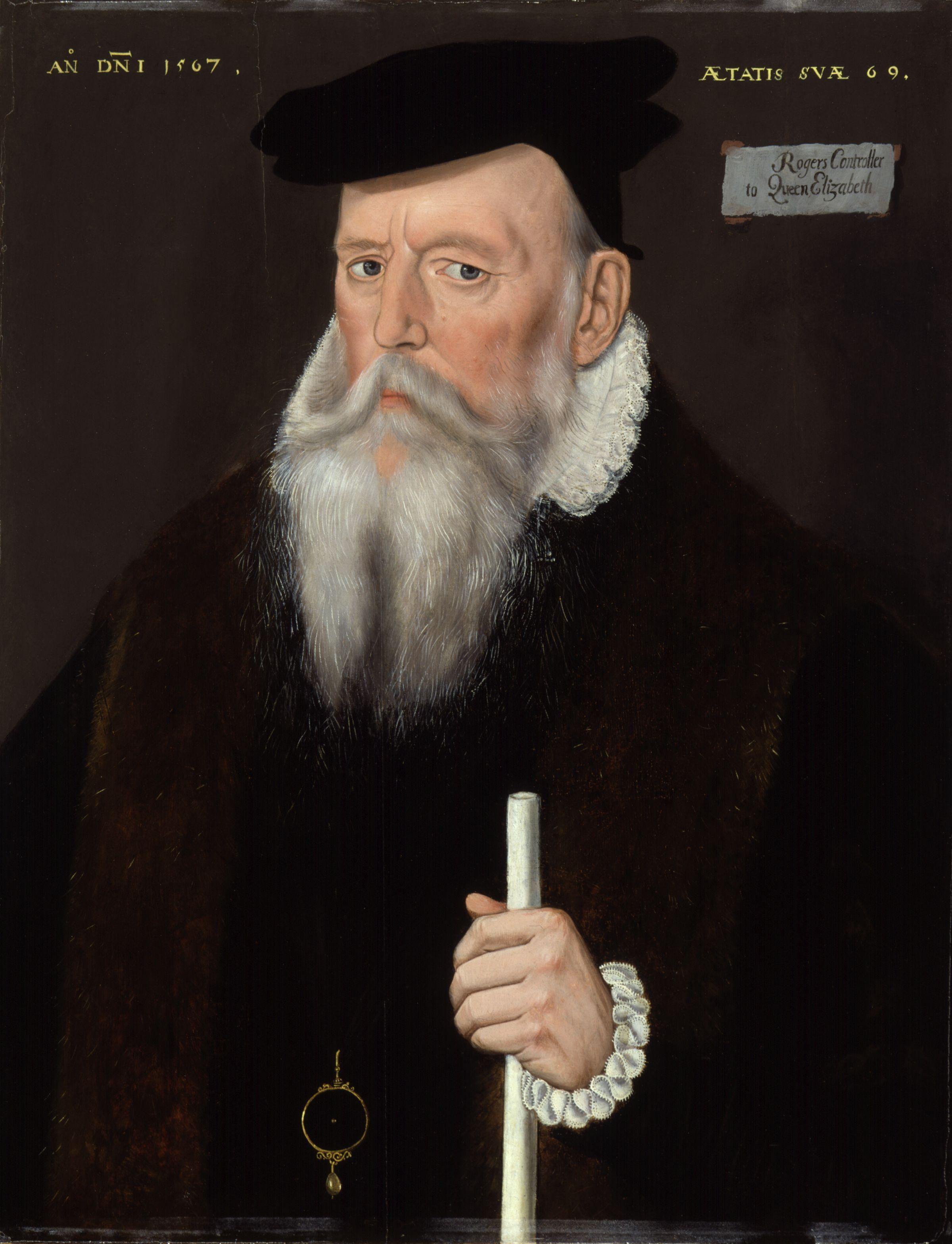 Sir Edward Rogers (1498?-1567?). Purchased by NPG in 1951. See source website for more information.